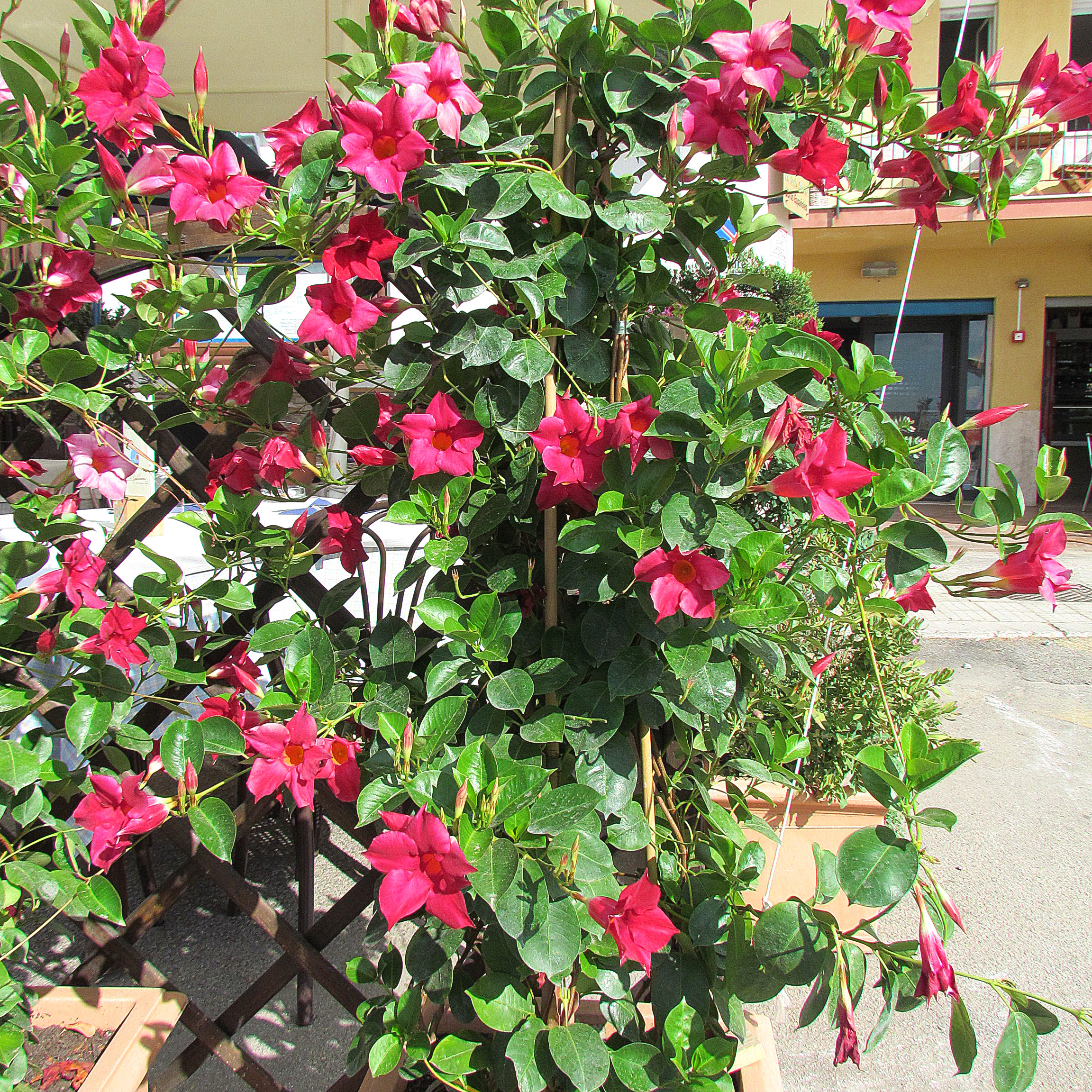 Mandevilla sanderi in Cefalu (Sicily)